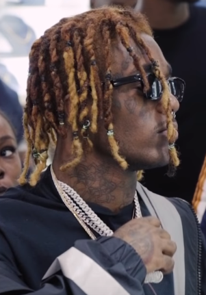 Lil Uzi Vert visiting IceBox